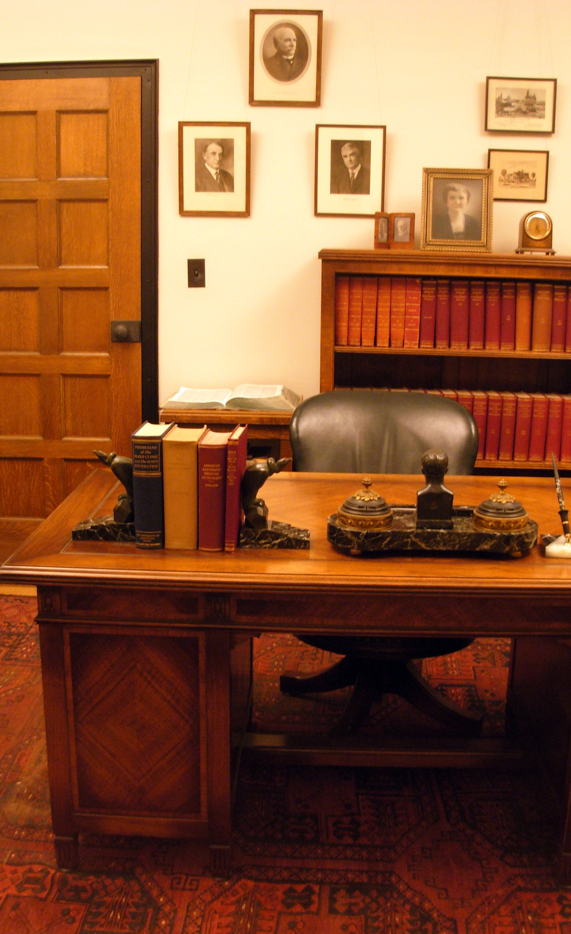 Last office of William James Mayo as it was during his lifetime in the Mayo Clinic Plummer Building in Rochester, Minnesota